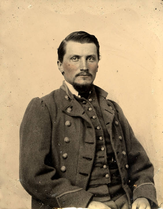 John Goode Finley; During the Civil War, Finley became a first lieutenant in Company A of the 22nd Alabama Infantry, Alabama Department of Archives and History